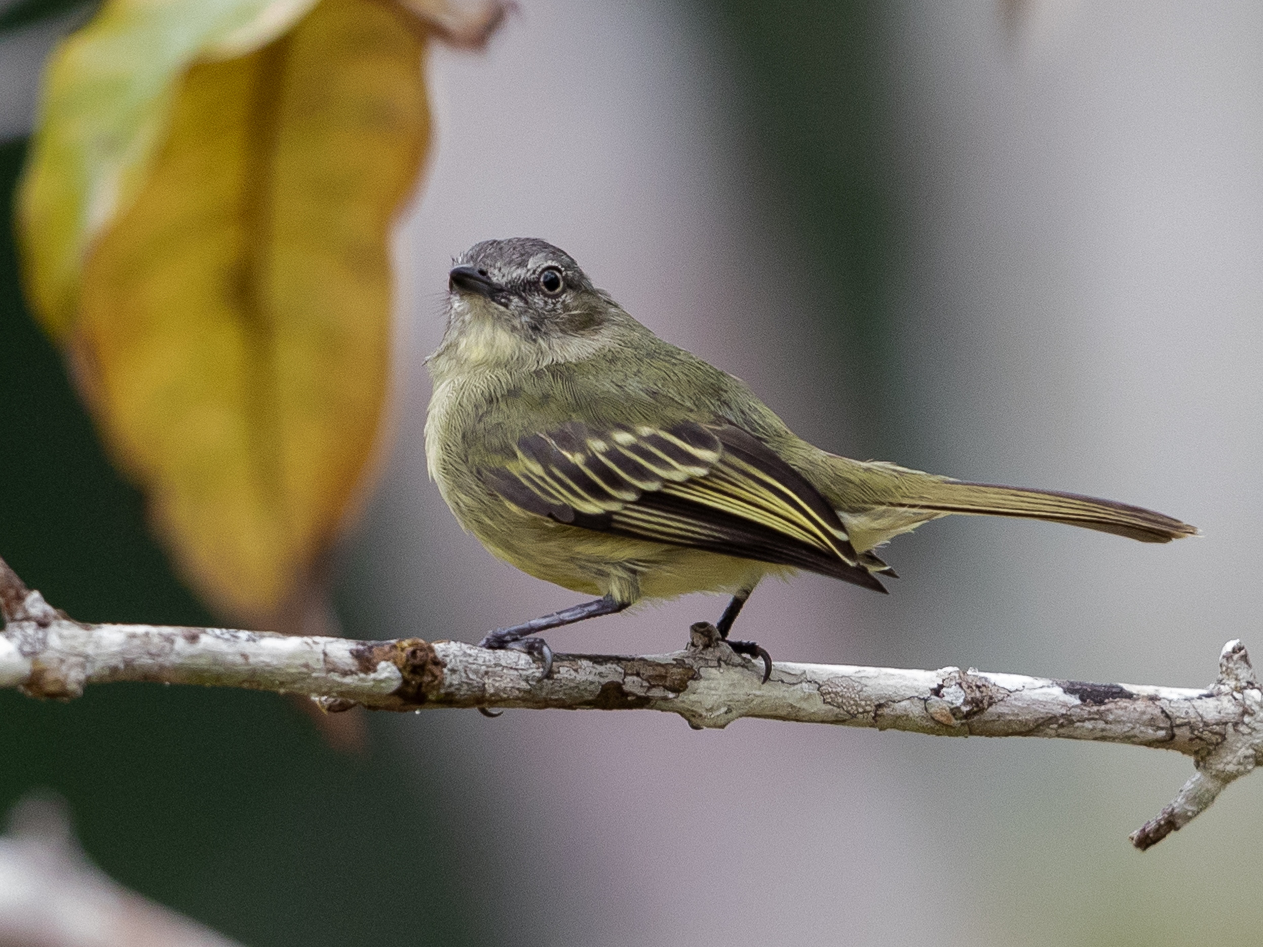 Slender-footed Tyrannulet; Manacapuru, Amazonas, Brazil